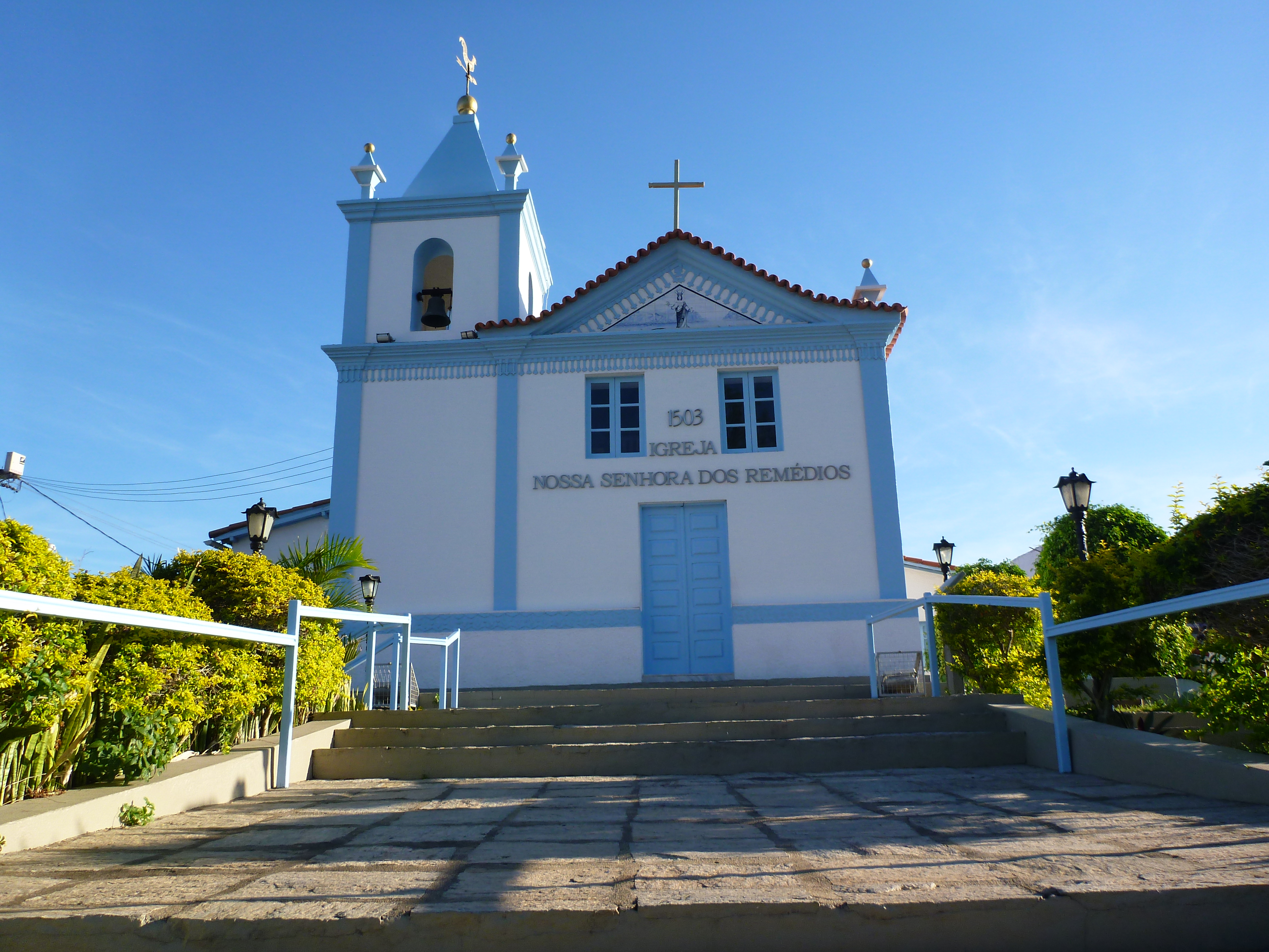 Church Igreja de Nossa Senhora dos Remédios Arraial do Cabo